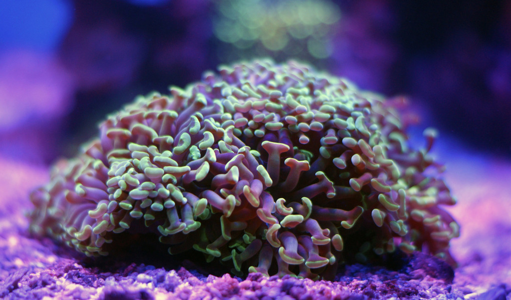 euphyllia parancora